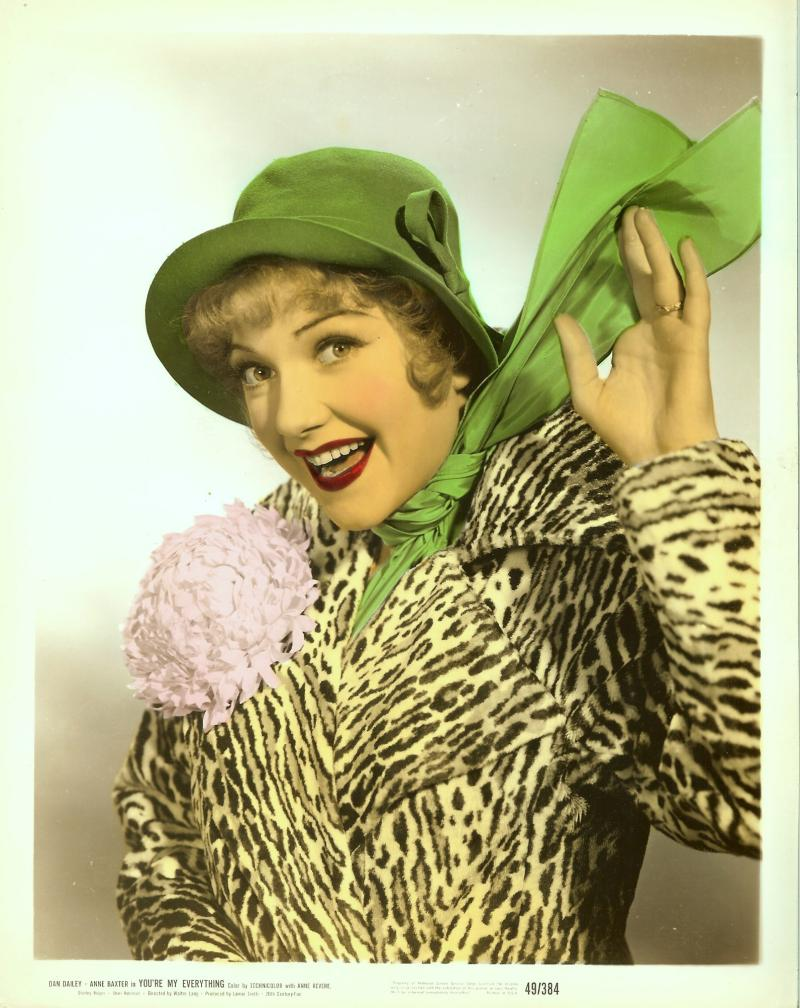 Promotion photo for the film You're My Everything (1949) featuring Anne Baxter. Photo Detail: You're My Everything, Directed by Walter Lang Year: 1949 Copyright info at bottom border: Yes Press statement on reverse or attached: No Photographer: unknown